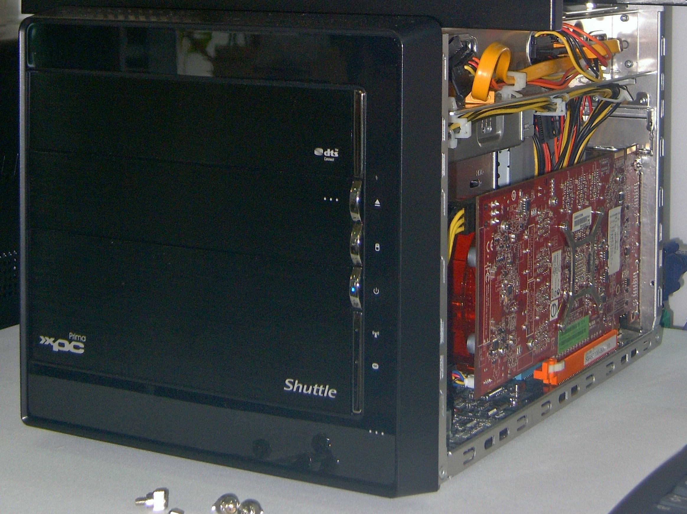 A Shuttle XPC. This image is a derivative work; it has been cropped for emphasis.